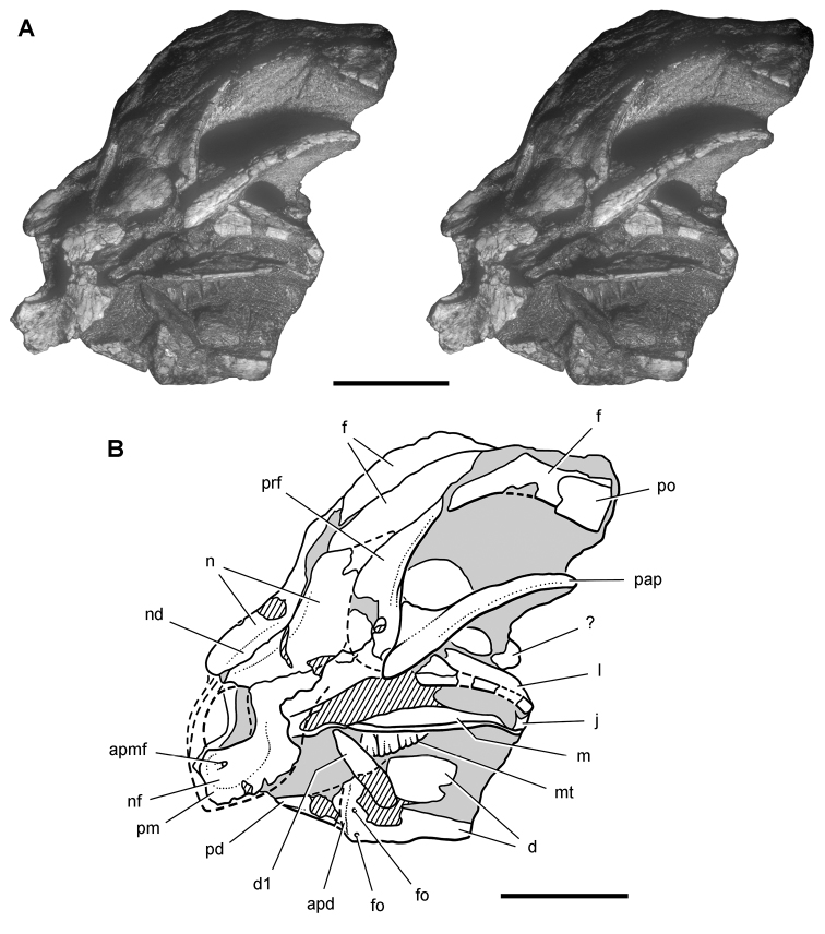 Original description: Snout of the heterodontosaurid Heterodontosaurus tucki from from the Lower Jurassic Upper Elliot and Clarens formations of South Africa. Anterior one-half of a juvenile skull (SAM-PK-K10487). Stereopair (A) and line drawing (B) in anterolateral view. Hatching indicates broken bone; dashed lines indicate estimated edges; tone indicates matrix. Scale bars equal 1 cm in A and B. Abbreviations: apd articular surface for predentary apmf anterior premaxillary foramen d dentary d1 dentary tooth 1 f frontal fo foramen j jugal l lacrimal m maxilla mt maxillary teeth n nasal nd nasal depression nf narial fossa pap palpebral pd predentary pm premaxilla po postorbital prf prefrontal.